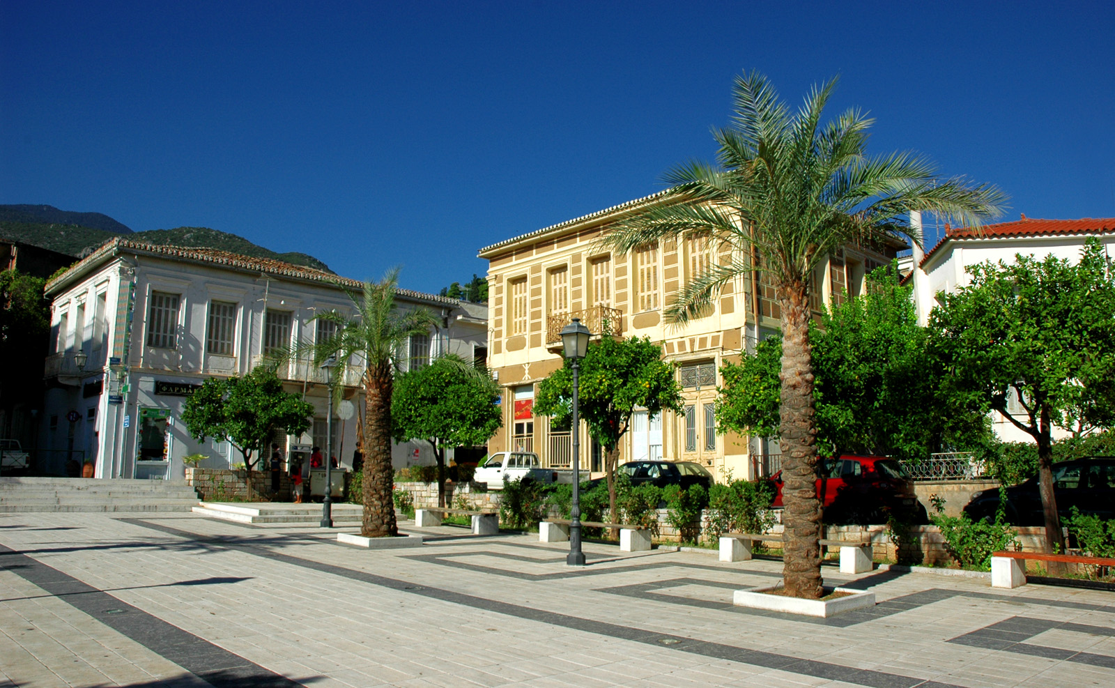 Square in Amfissa, Greece